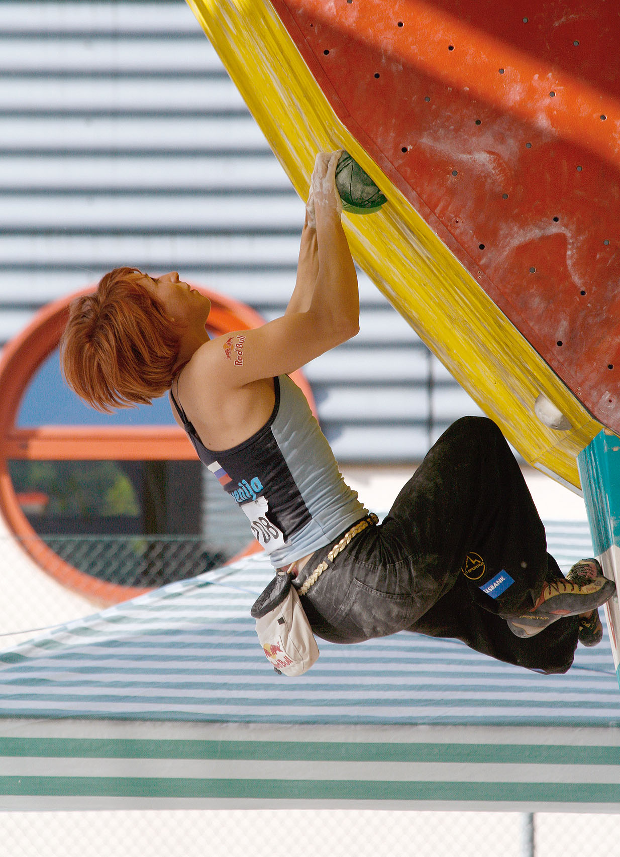 Natalija Gros during qualifications at the IFSC Boulder Worldcup Vienna 2010.